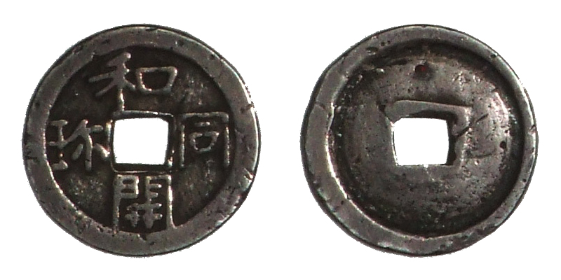 Wadokaiho-gin